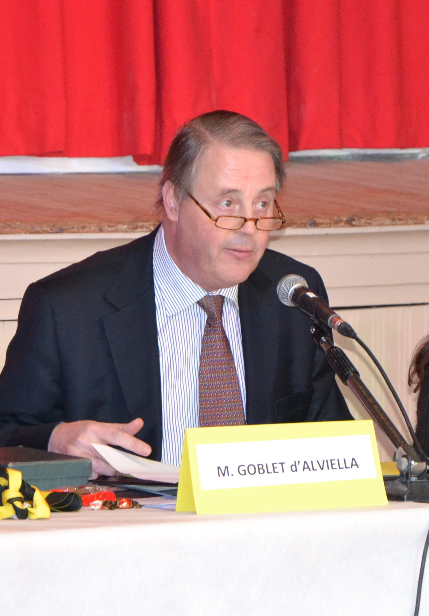 Mr Michale Goblet as president of the City Council of Court St Etienne (Brabant province, Belgium) Dec 3rd 2012.